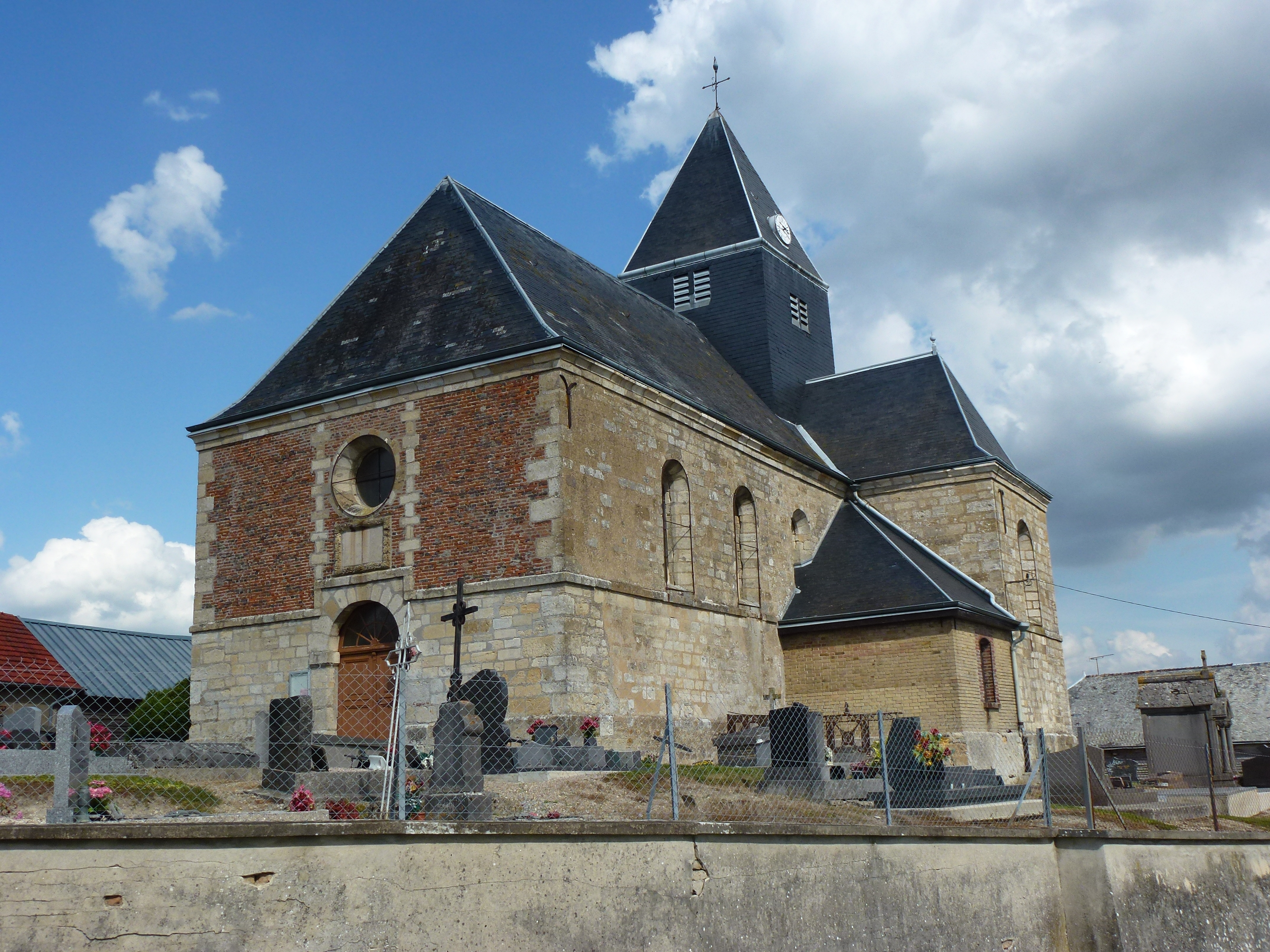 Auboncourt-Vauzelles (Ardennes) église